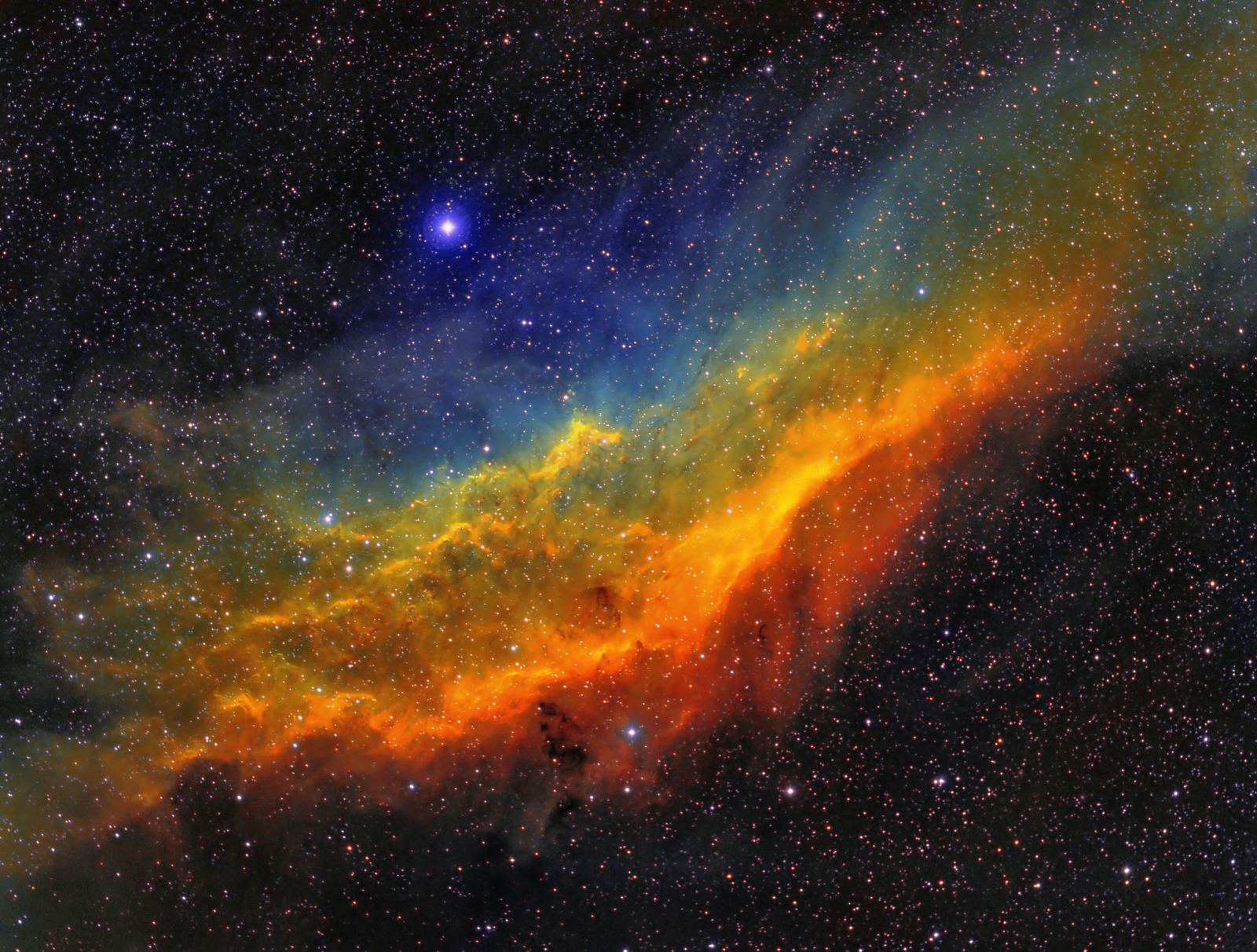 NGC 1499 (California Nebula) narrowband